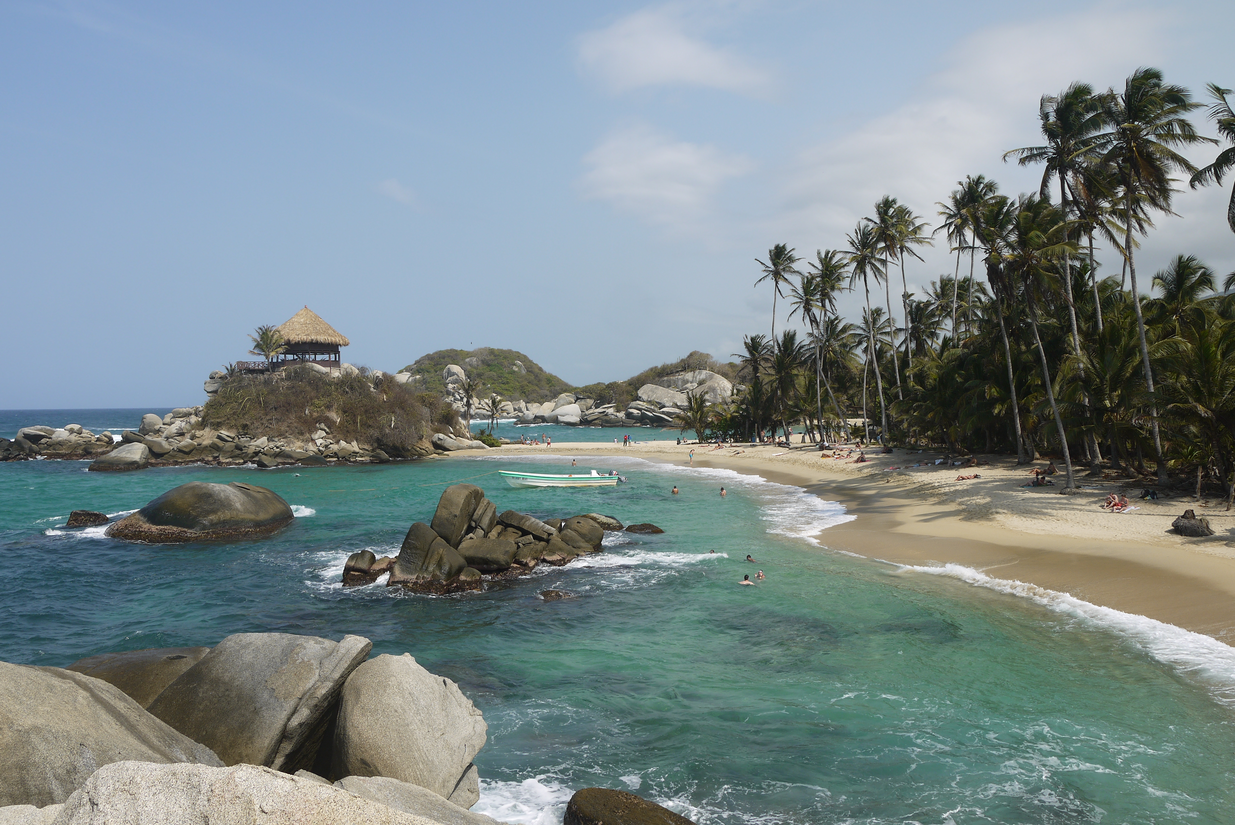 El Cabo beach at Tayrona National Park